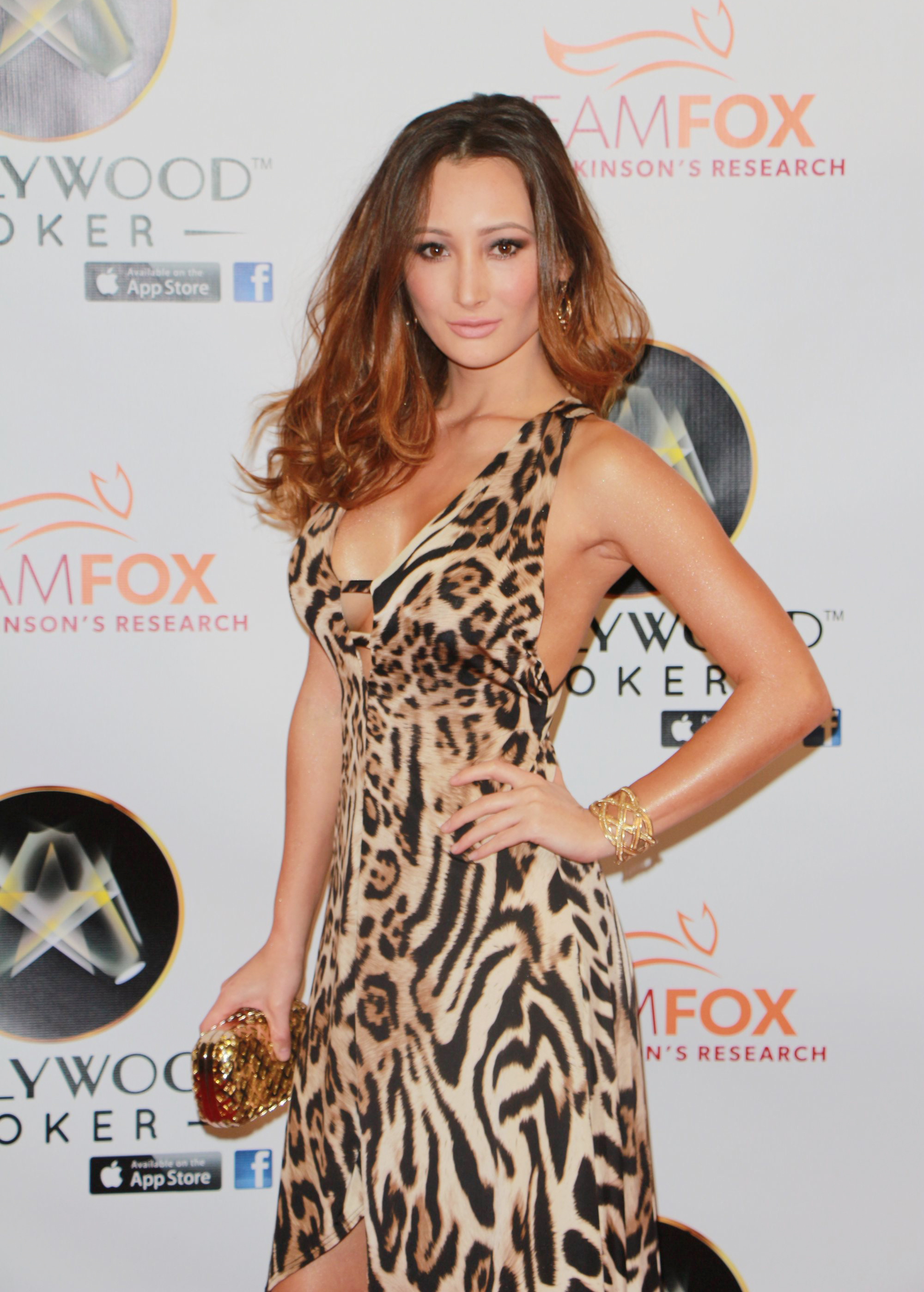 Model Amy Markham at Celebrity Poker event